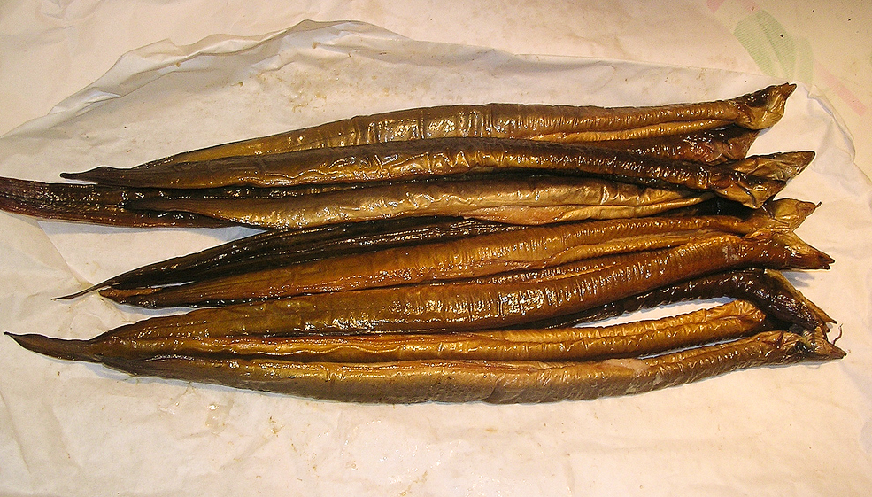 Smoked Eel, Netherlands